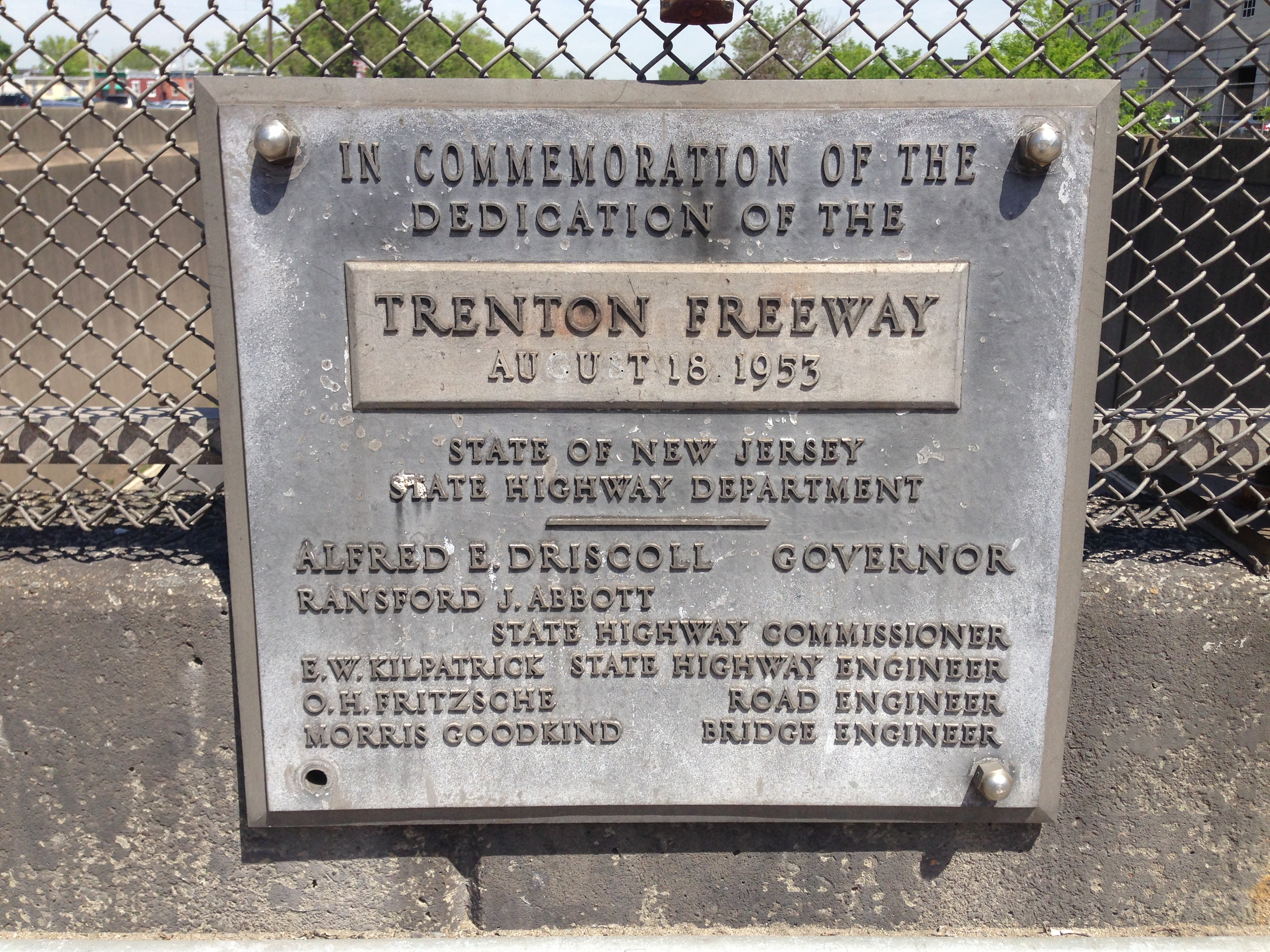 Dedication plaque for the Trenton Freeway (U.S. Route 1) on the East State Street overpass in Trenton, New Jersey